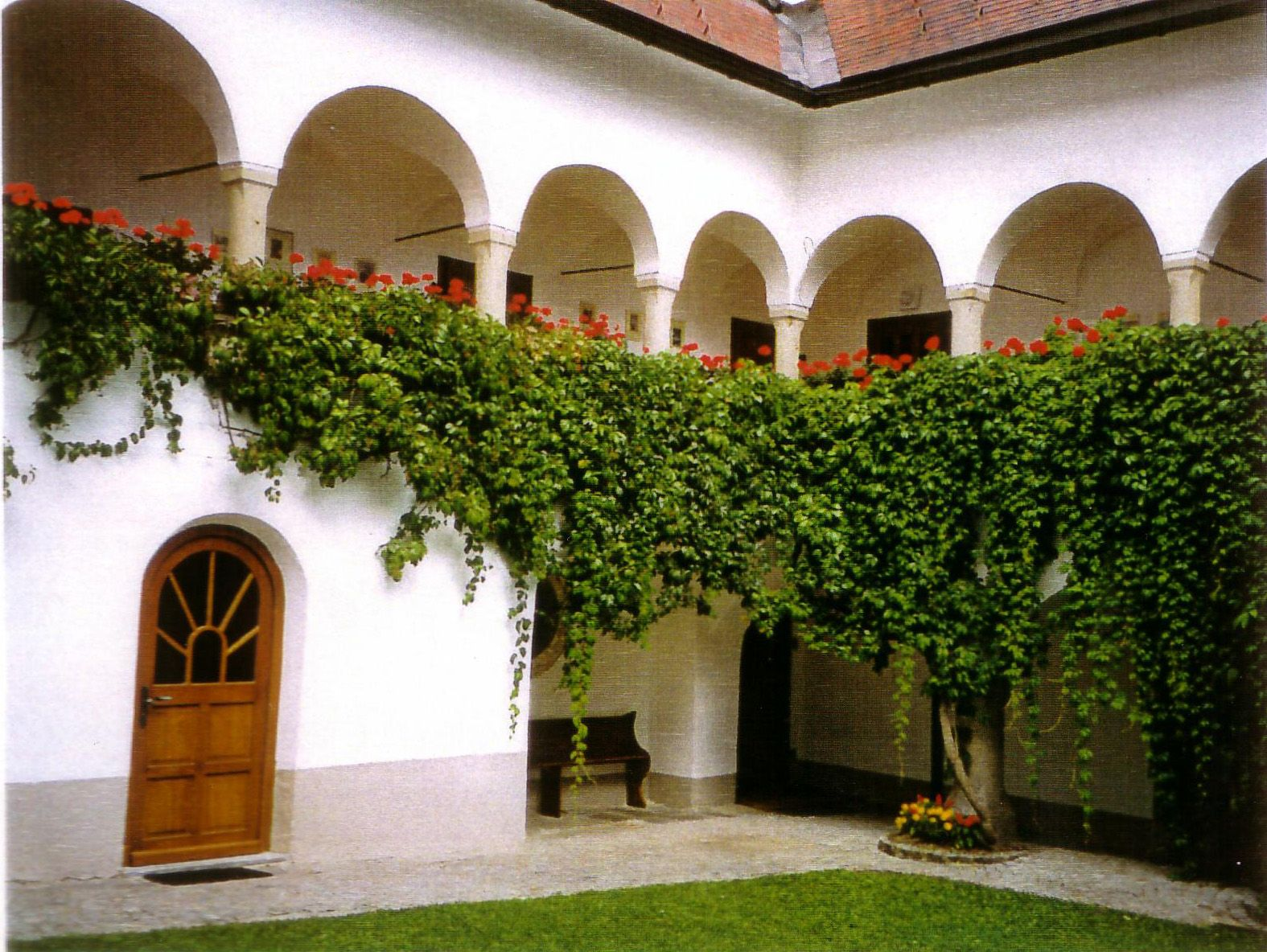 Schlosshof Götzendorf